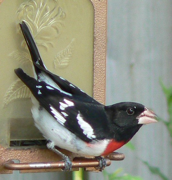 Rose-breasted grosbeak